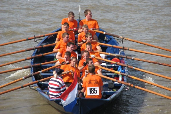 Dutch midshipmen rowing during the Great River Race in London.